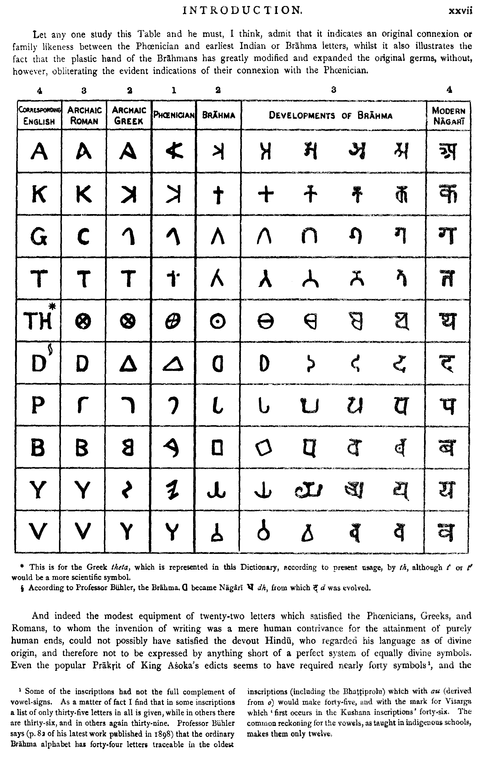 A page from A Sanskrit-English dictionary.